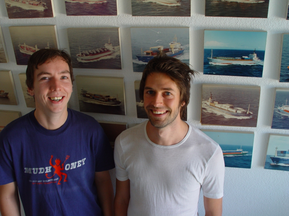 Olli Schulz and Max Schröder (German musicians forming the band "Olli Schulz & der Hund Marie")